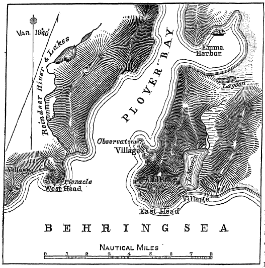 A sketch map of the lower portion of Provideniya Bay including Emma Harbor, showing the location of the two temporary eclipse observatories and the anchorage of the ship.